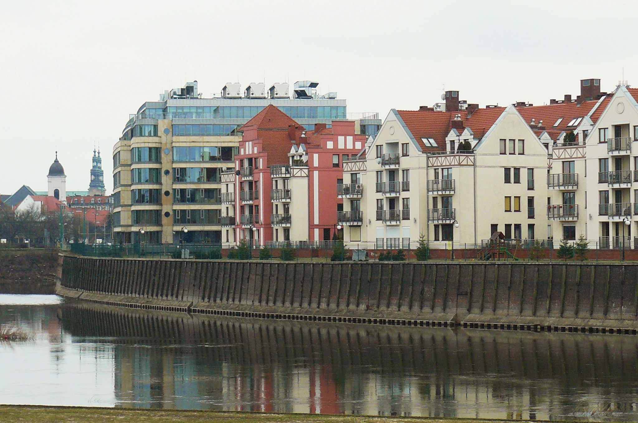 River Port - Poznan, Warta River.